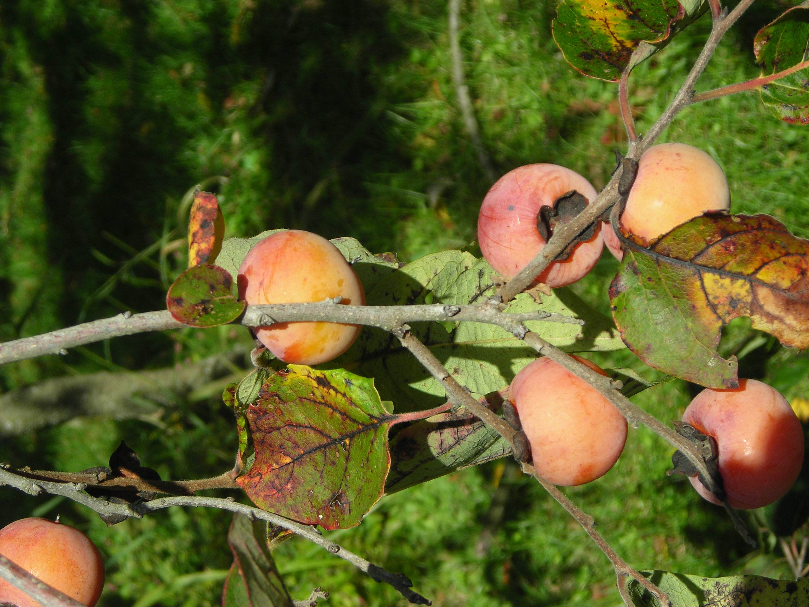 John Rick D. Virginiana persimmons